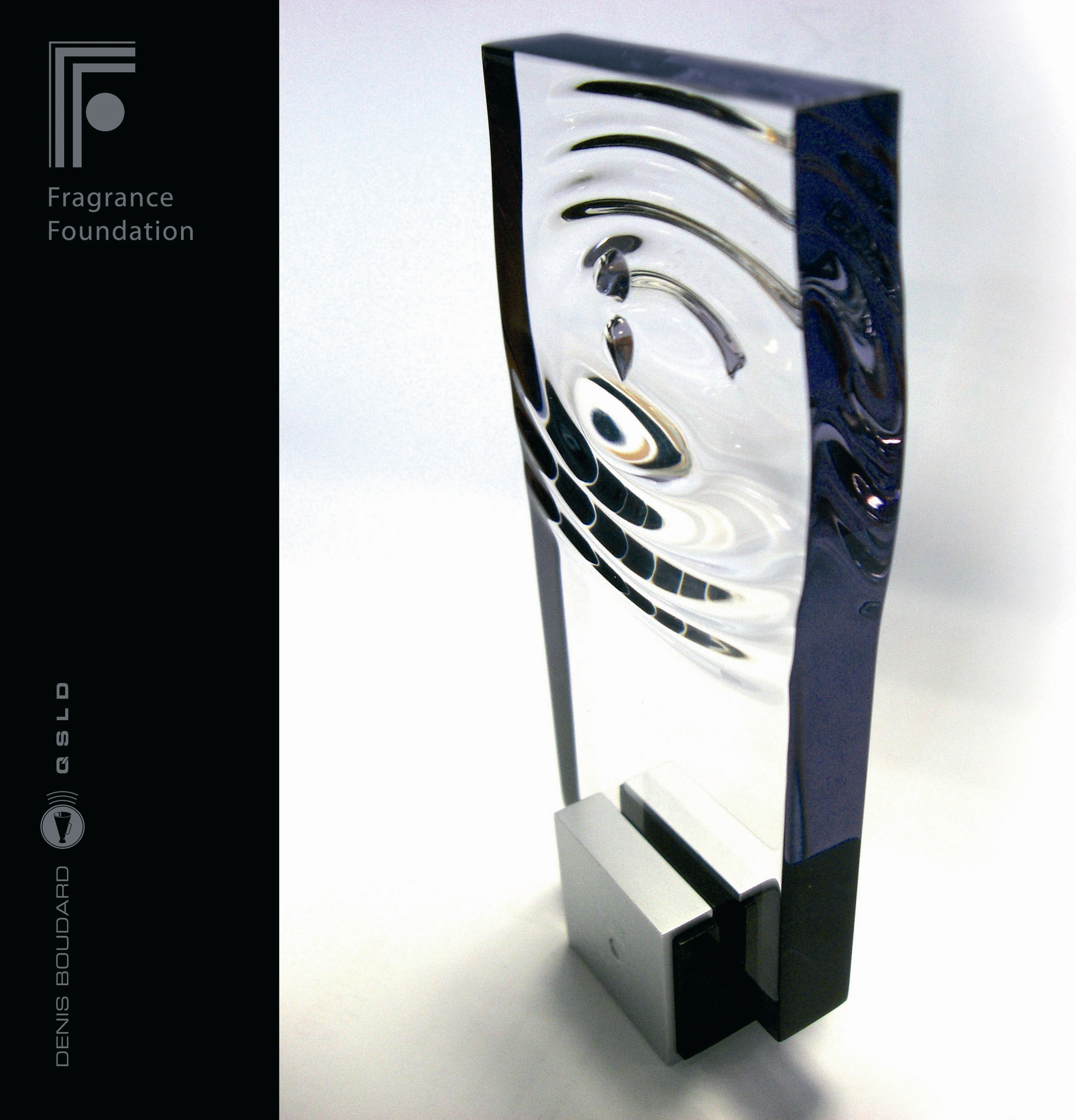 Official shot of the FiFi Award supplied by the Fragrance Foundation.